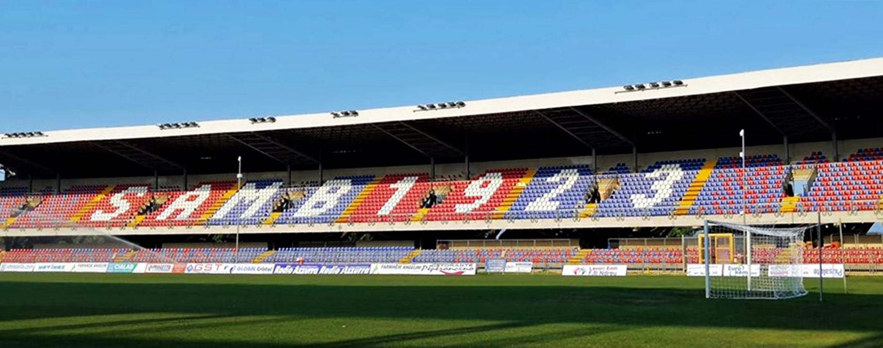 Installation of seats in the East Sea Tribune.